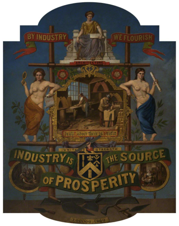 Trade Union emblem featuring a a wooden scaffold with three women symbolising truth, architecture and science. Two cameos are included with one featuring a workplace injury and the other the union providing compensation. The central image is of a bricklayers workshop. The slogans "By industry we flourish", "In all labour there is profit" "Unity is Strength" and "industry is the Source of Prosperity" are all feature and the provenance is given as "London 1869". The work is held by the People's History Museum, Manchester